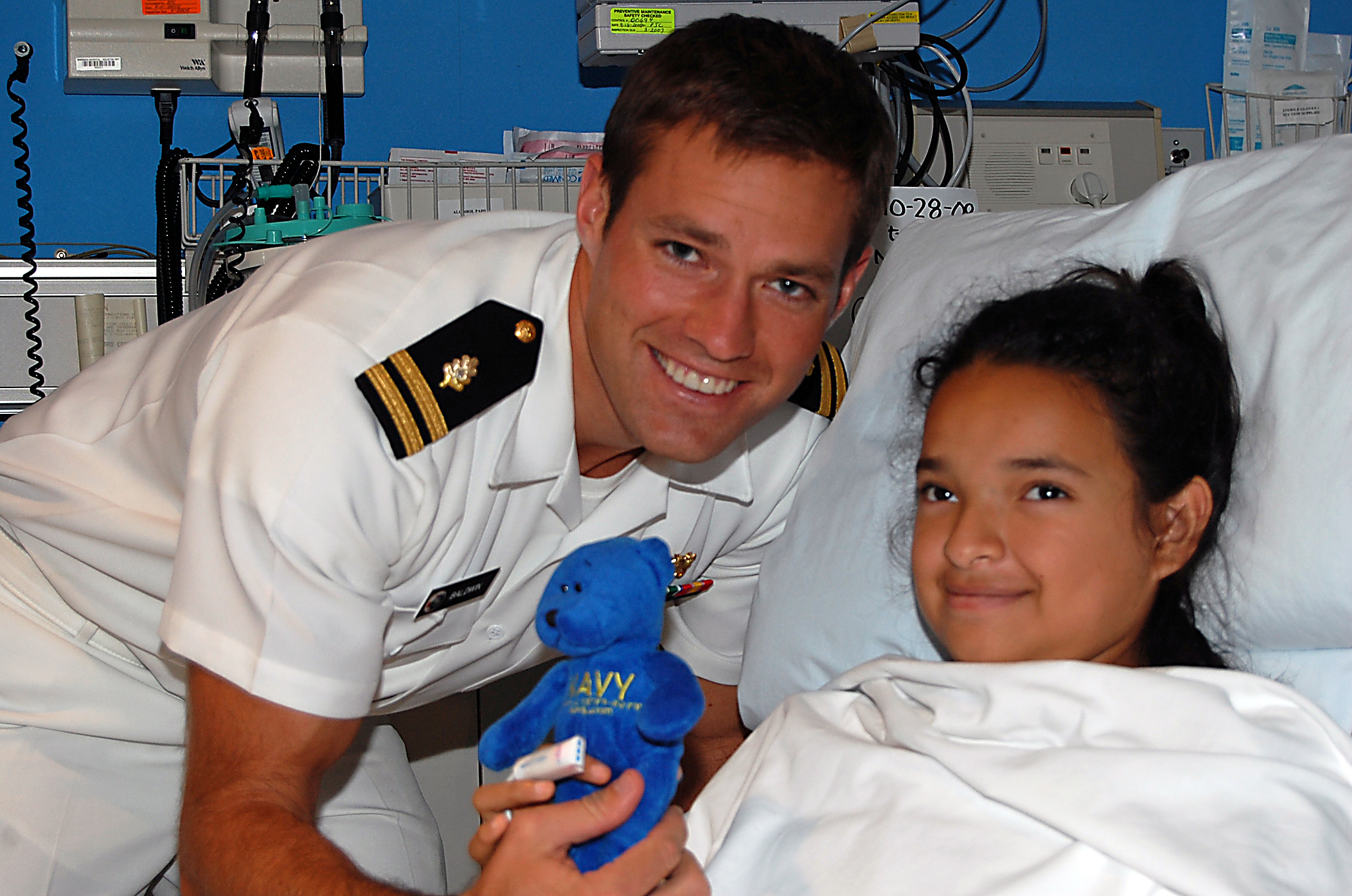 HOUSTON (Nov. 6, 2008) Lt. Andrew Baldwin, M.D., assigned to the Navy Bureau of Medicine and Surgery, makes this patient and honorary Sailor at Shriners Hospital Houston. Baldwin was in the Houston area November 3 - 7 as part of a weeklong medical recruiting efforts. He spoke to local area medical students within the district. (U.S Navy photo by Mass Communication Specialist 1st Class Kimberly R. Stephens/Released)